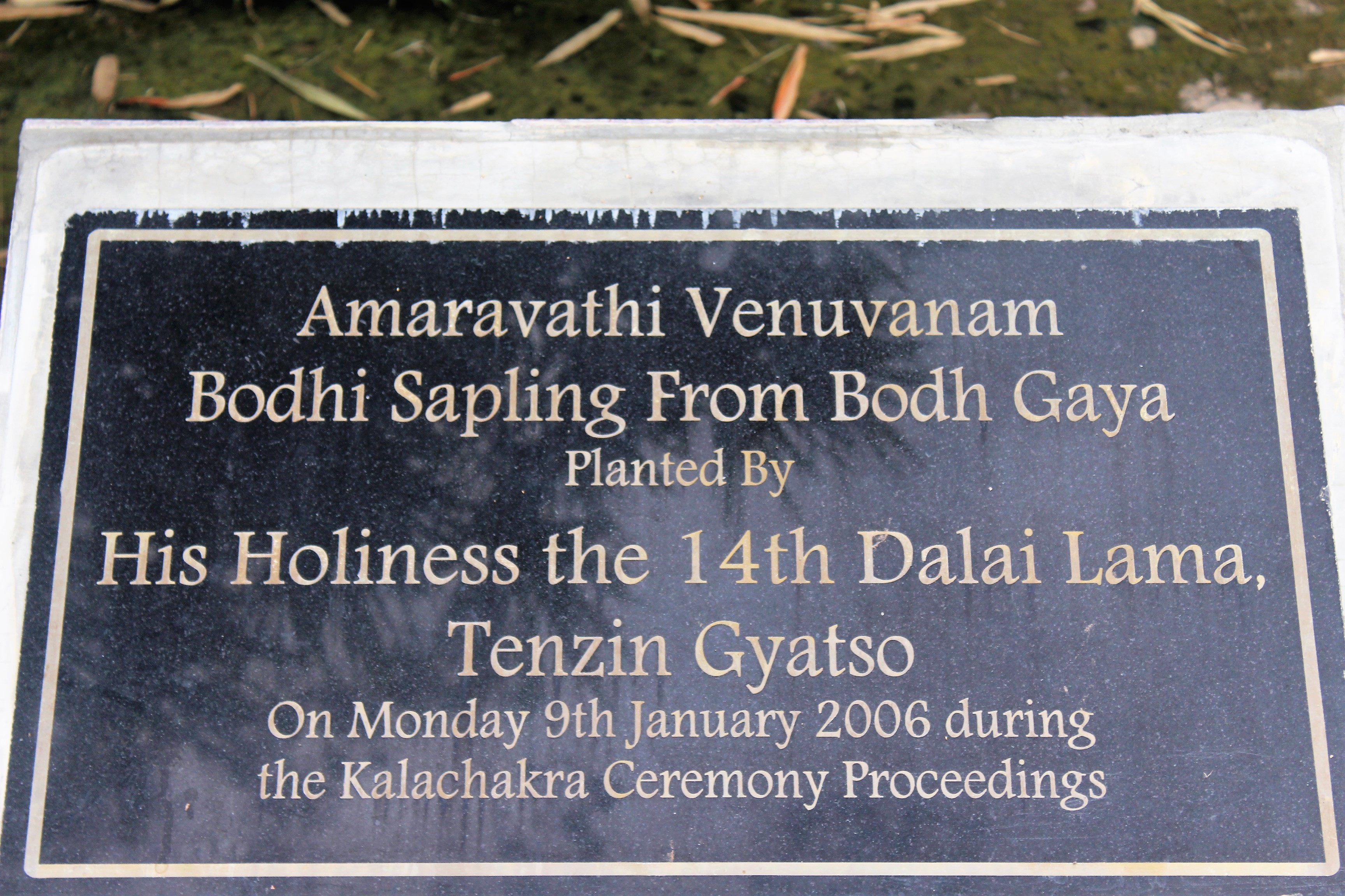 The museum is maintained by Andhra Pradesh under APTDC, contains artefacts related to Amaravathi.